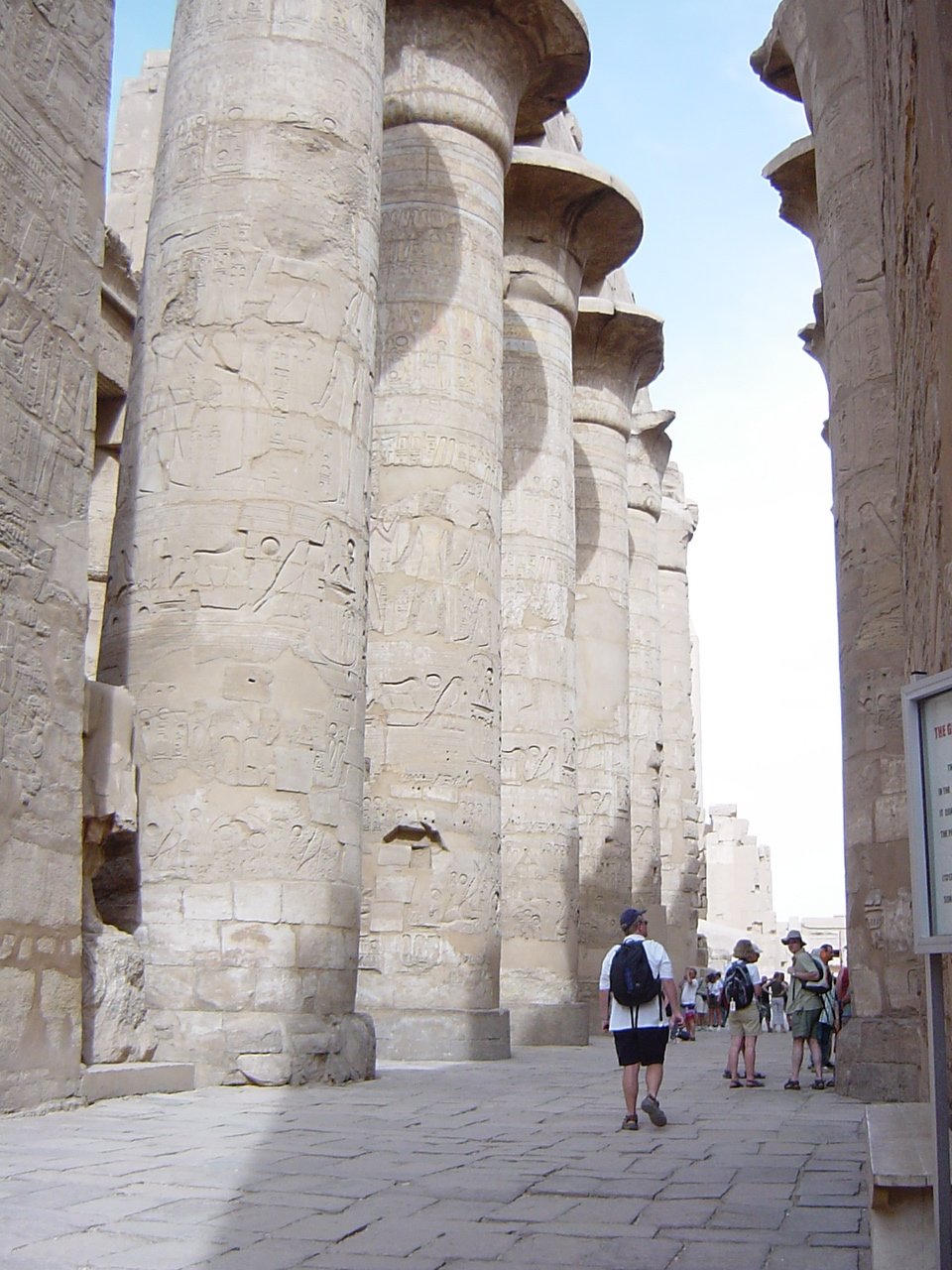 Great Hypostyle Hall at Karnak